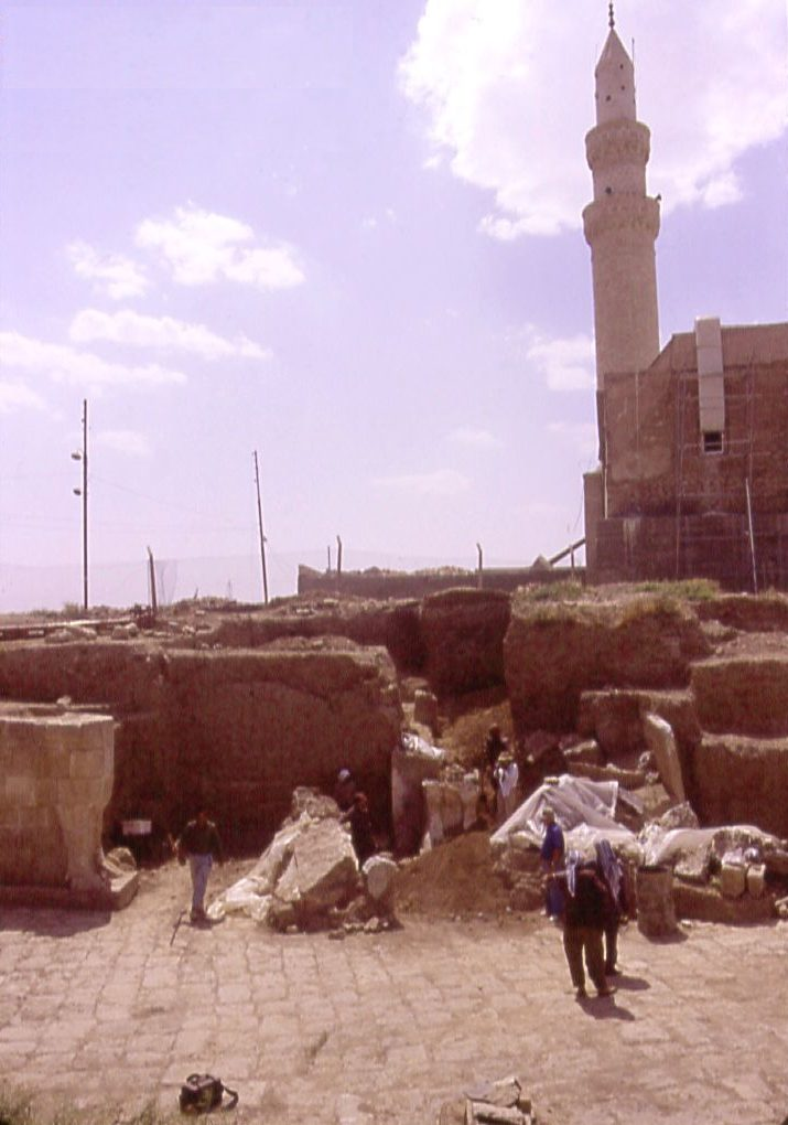 Nineveh. Nebi Yunus. Iraqi archaeologists excavate the monumental entrance to a late Assyrian building. Mosque of Nebi Yunus (destroyed in 2014) is behind.